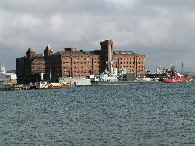 Historic warships Birkenhead, with HMS Plymouth, a lightship and submarine HMS Onyx.